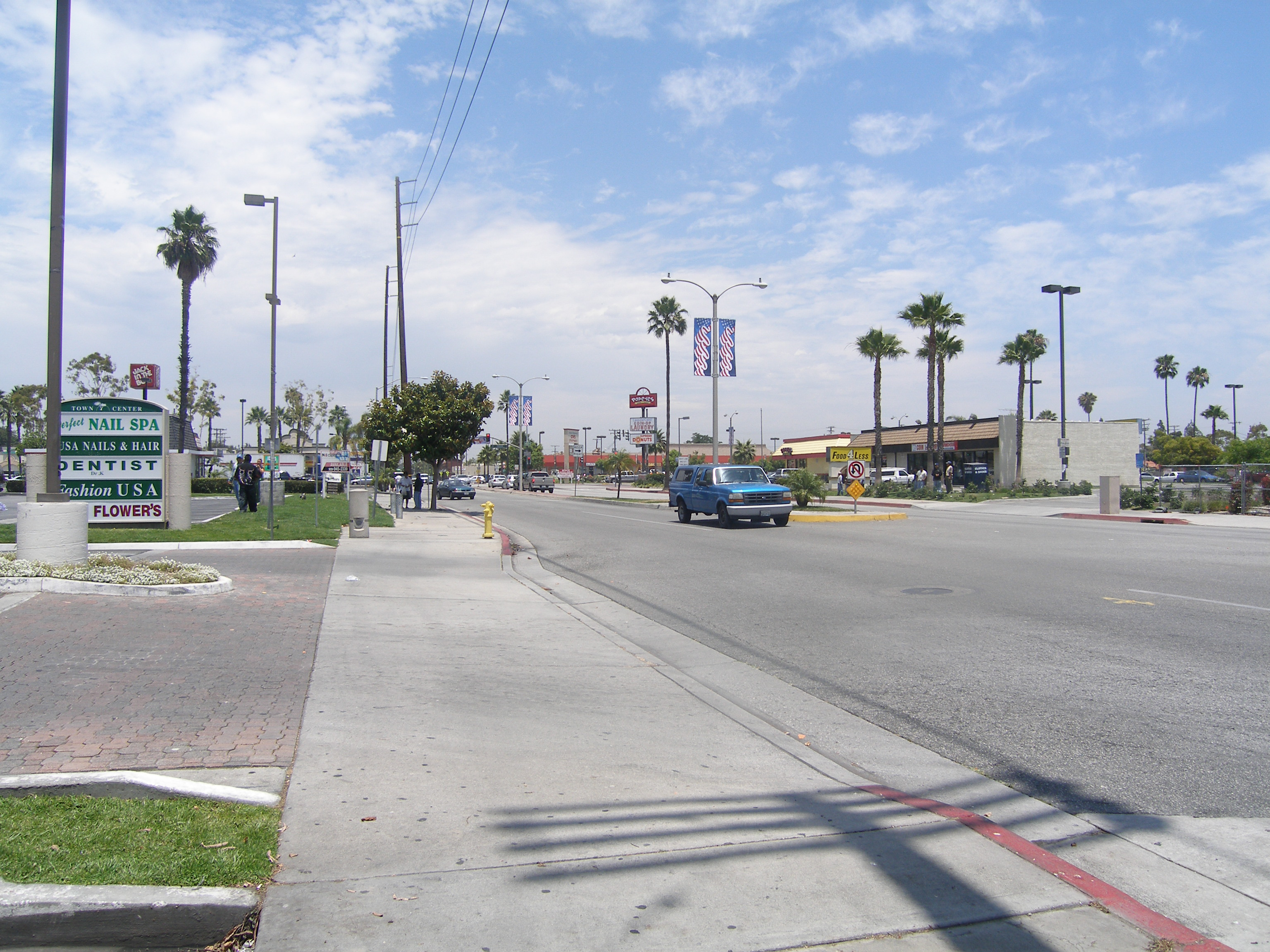 Hawaiian Gardens was named after a roadside stand here. It was decorated with palm fronds and bamboo. Rumor has it that it sold moonshine as well as soft drinks and soda pop.